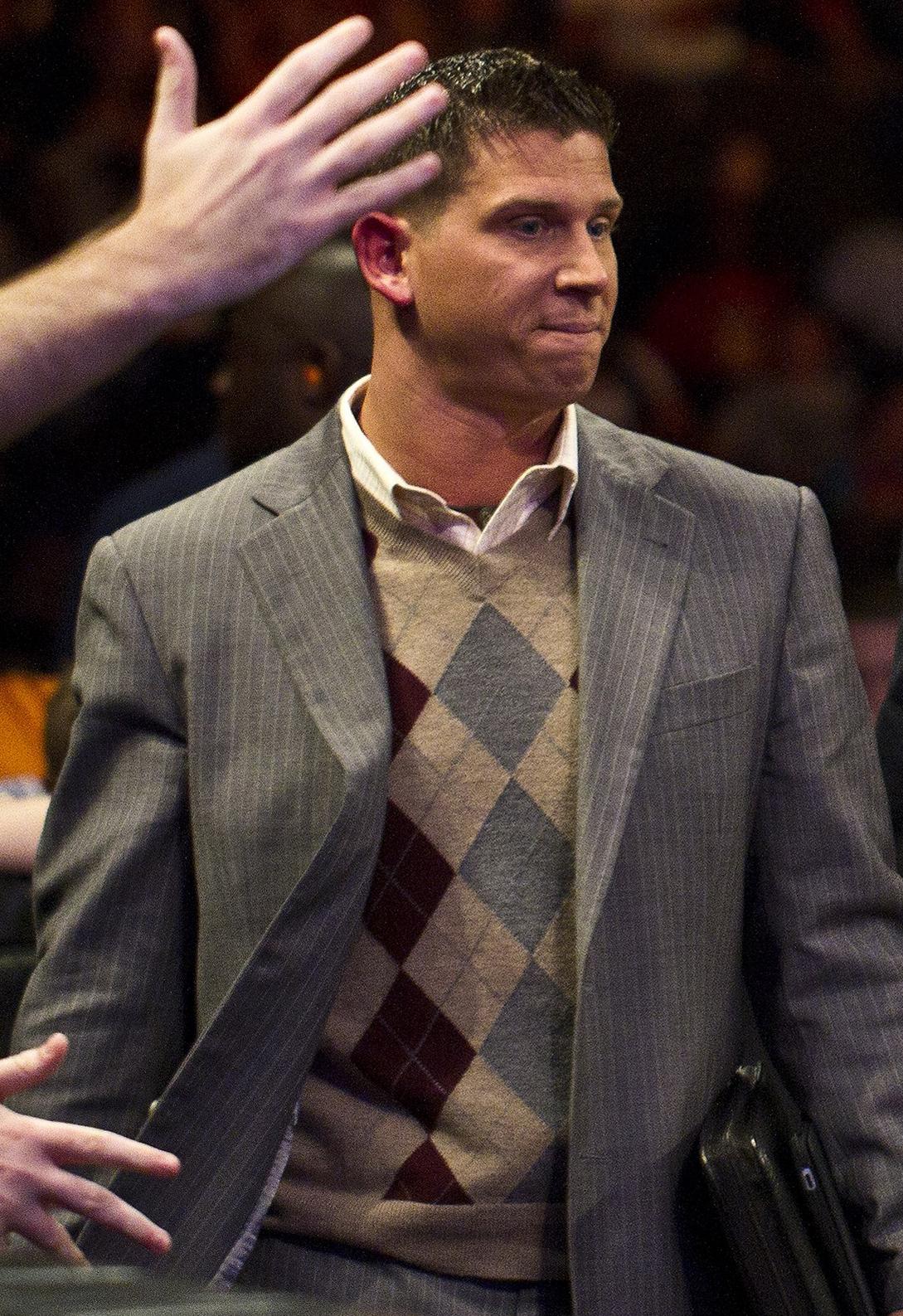 Josh Mathews at a WWE event.